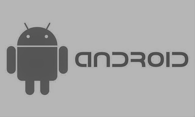 Android Logo image made by